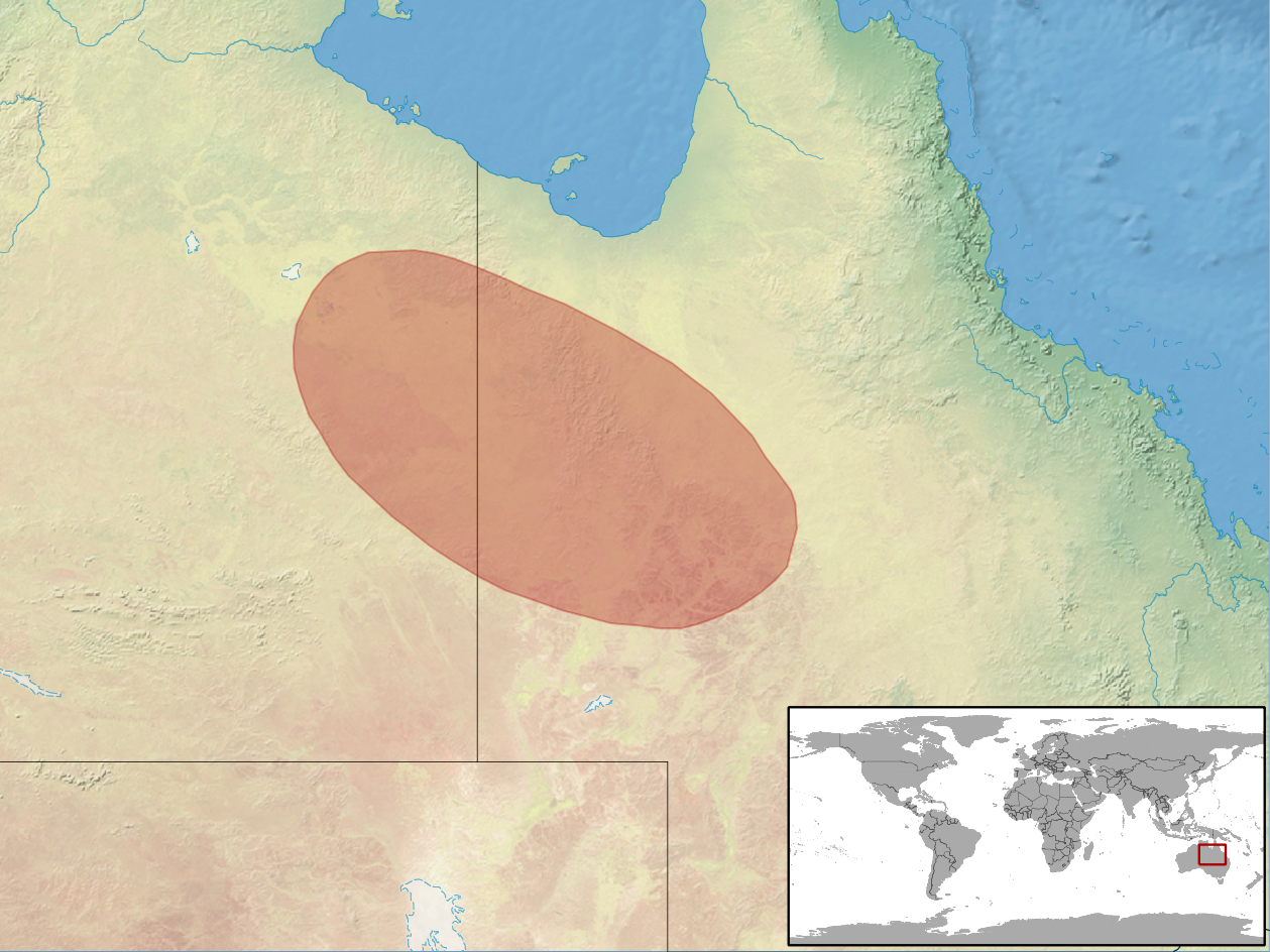 geographic distribution of Lophognathus gilberti (Native: Australia (Northern Territory, Queensland))